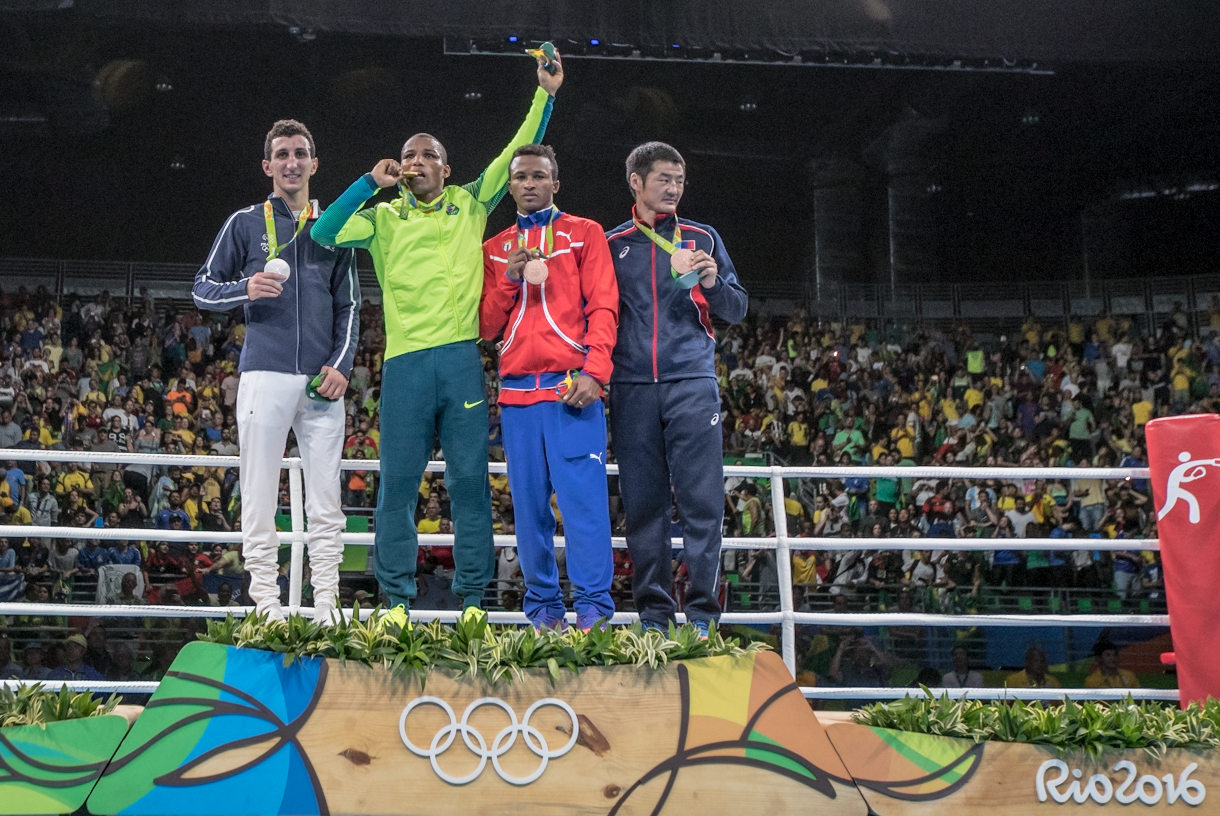 Medal Ceremony Men's 60 kg